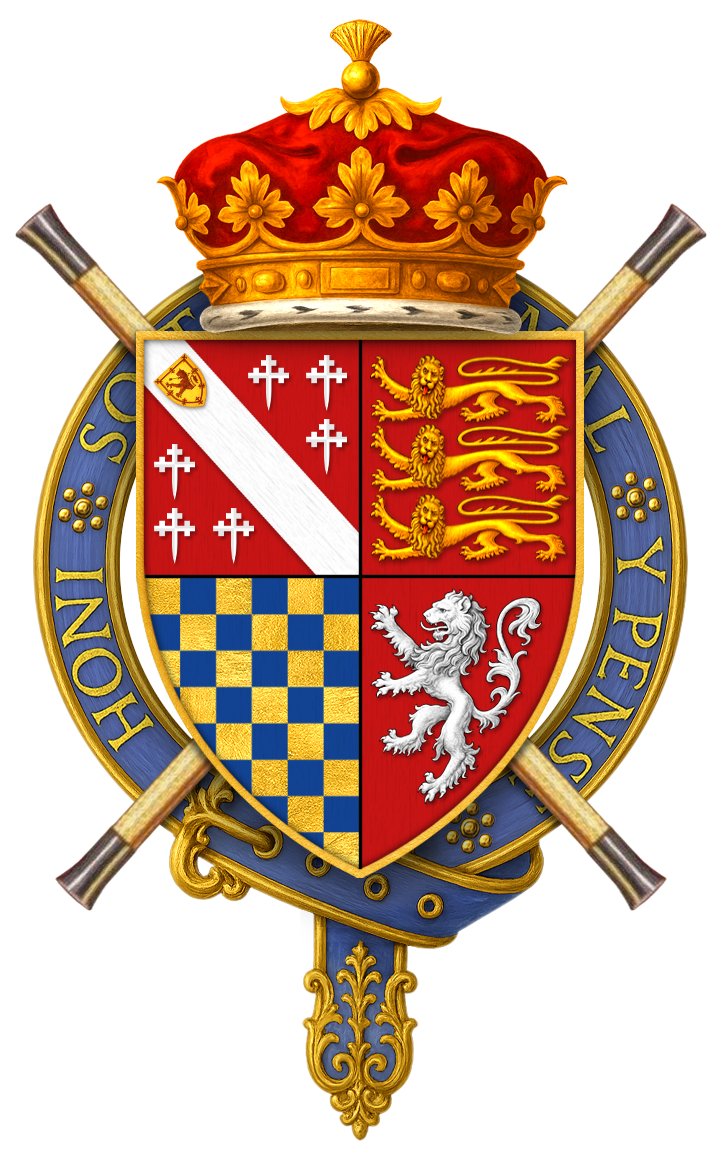 Shield of arms of Henry Howard, 13th Duke of Norfolk, KG, PC, Earl Marshal